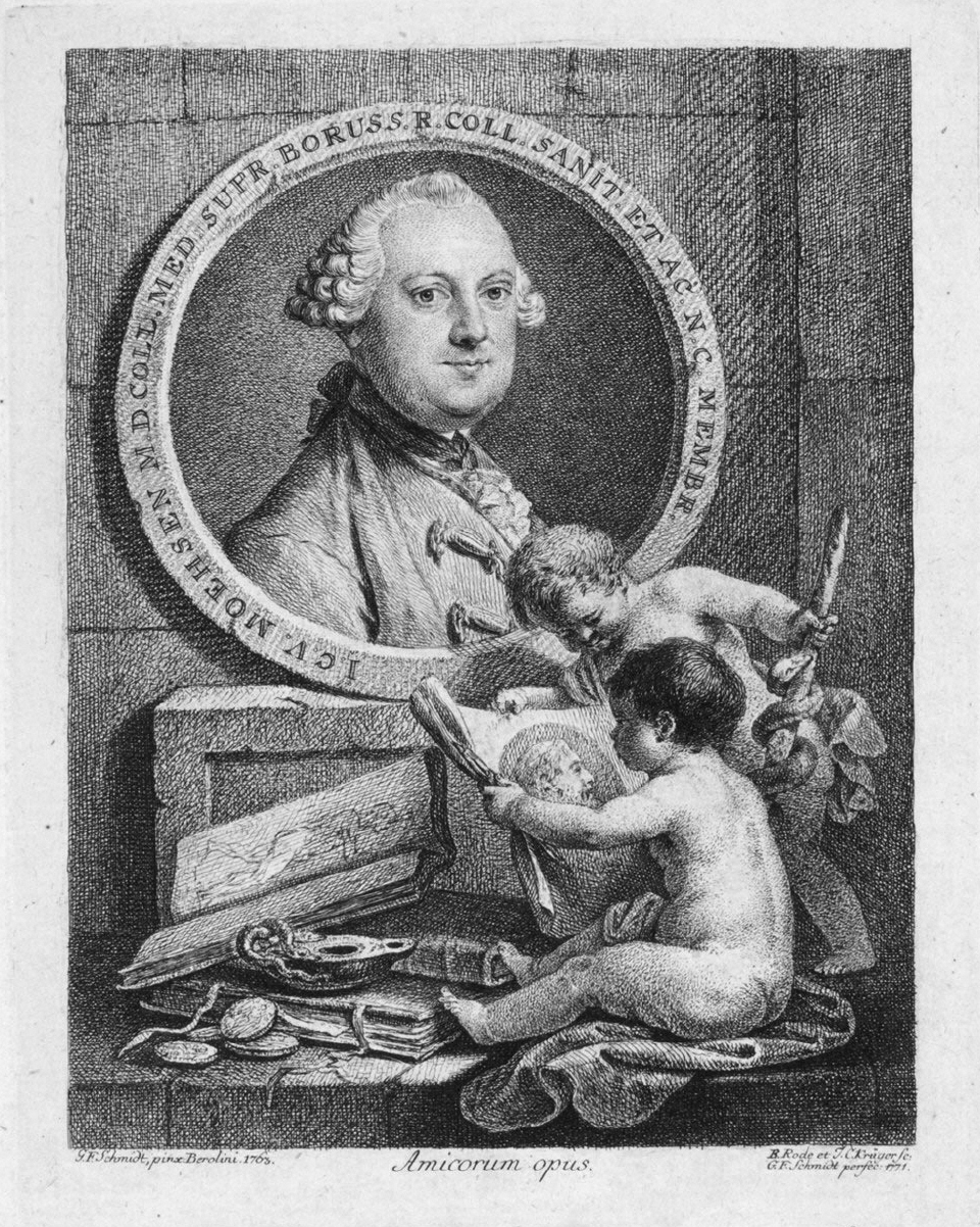 Johann Karl Wilhelm Möhsen (1722 - 1795), Physician to Frederick the Great